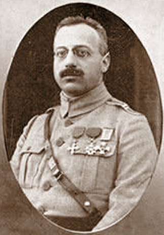 Lieutenant colonel Radu Rosetti , chief of the Operation Office at the Romanian General Staff, during the WWI